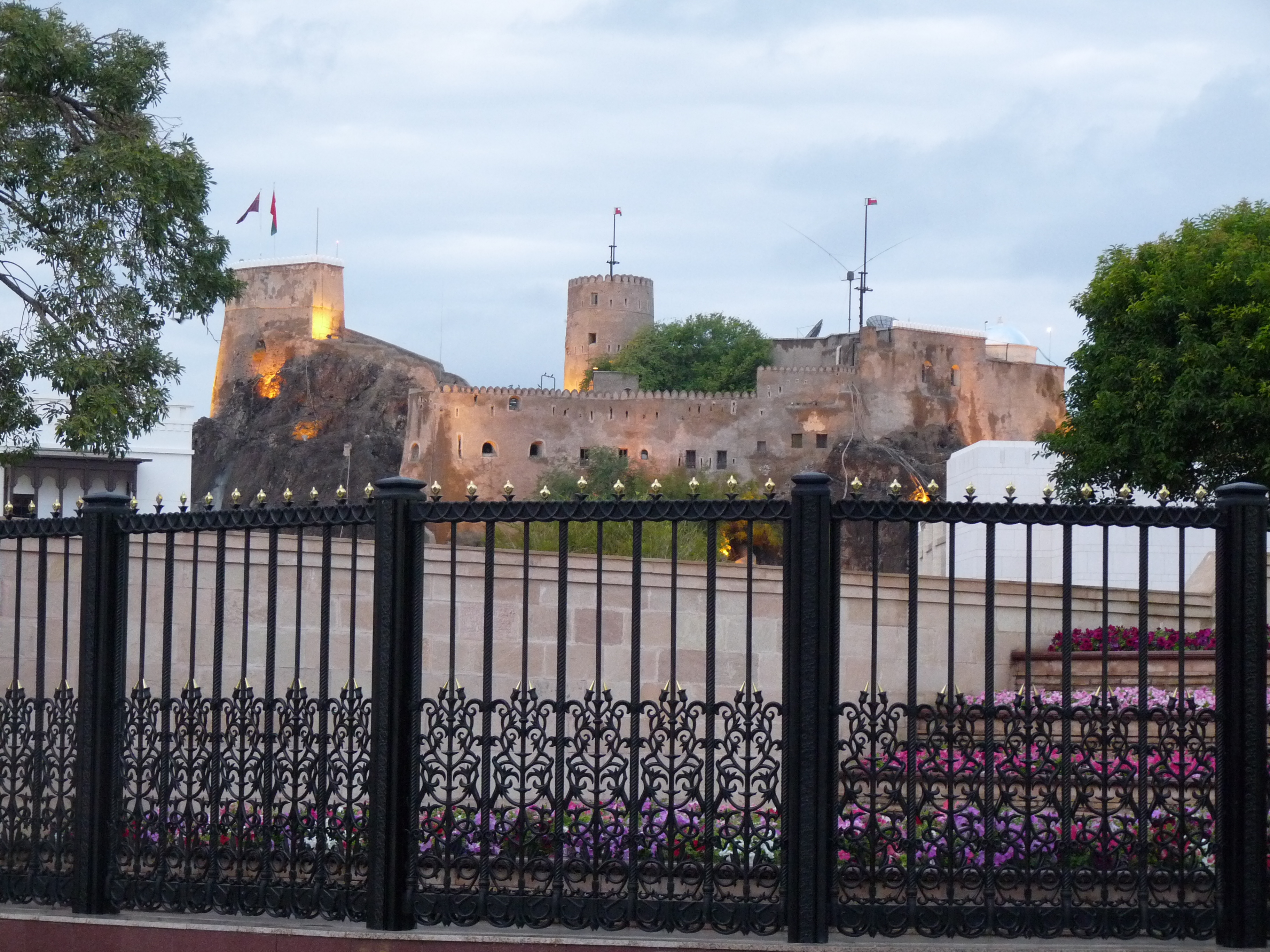 Portuguese fort near Qasr Al Alam Royal Palace in Muscat (Oman). )